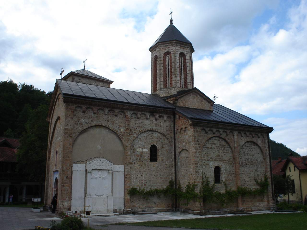 Rača Monastery, Serbia.